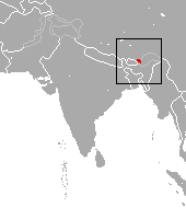 Arunachal Macaque (Macaca munzala) range